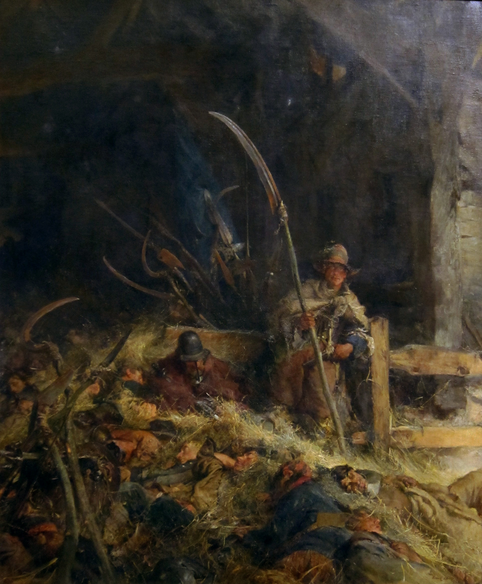 The Morning of Sedgemoor, oil painting on canvas by Edgar Bundy, 1905, Tate Britain